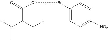 Halogen bonding